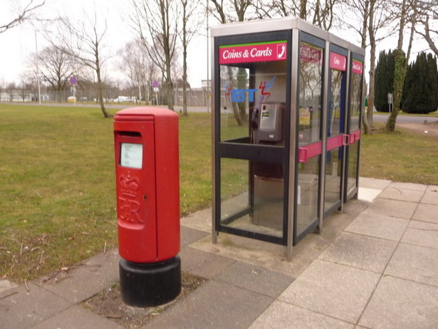 Bovington: postbox № BH20 287 and phones, Gaza Road This modern postbox faces 1708386, in the centre of the 'village'.